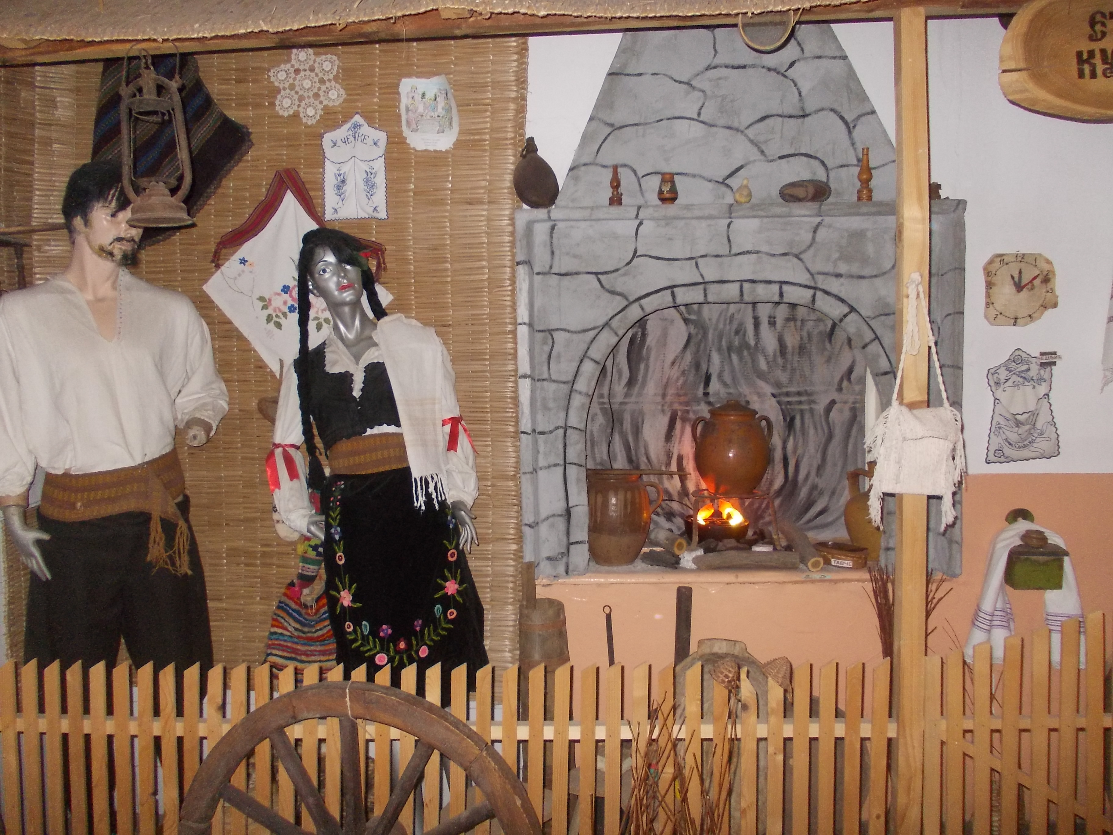 Етно кутак ОШ "Радислав Никчевић" - Главинци